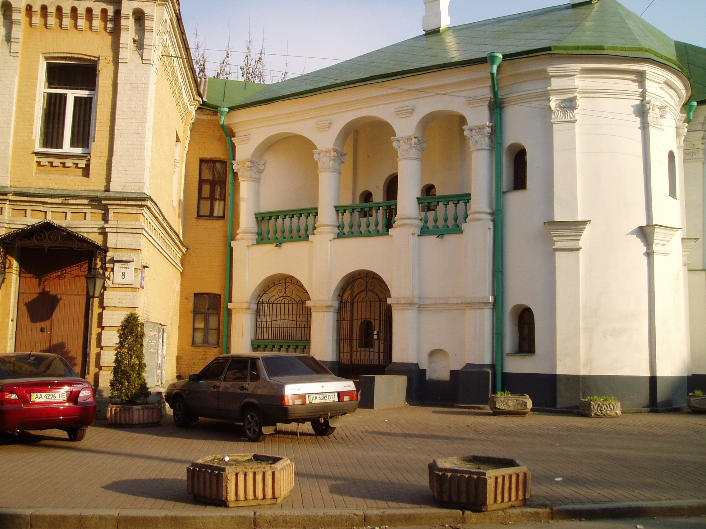 The opposite side of the so-called "House of Peter I" in Kyiv, Ukraine